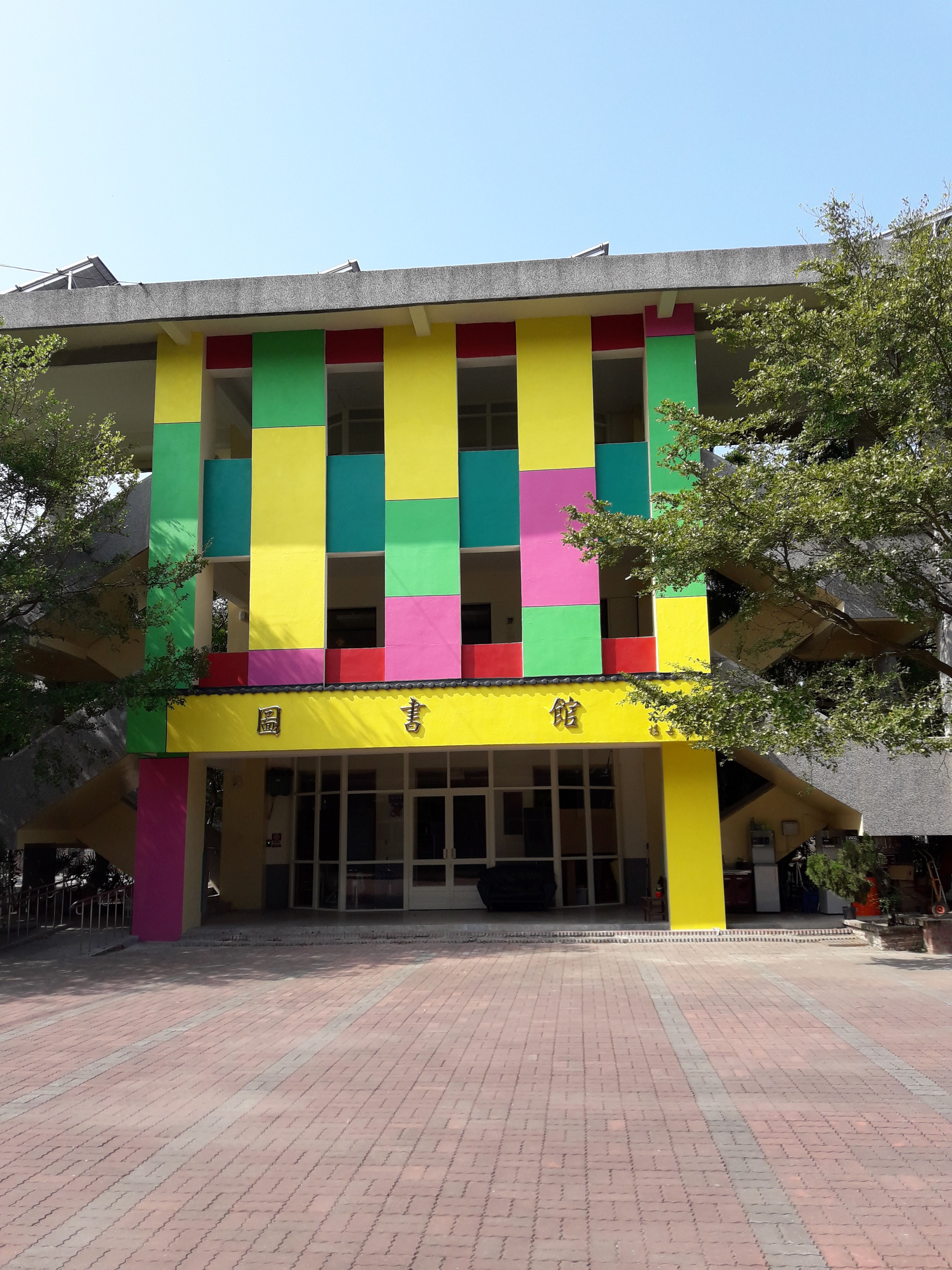 School library of Tuku Junior high school